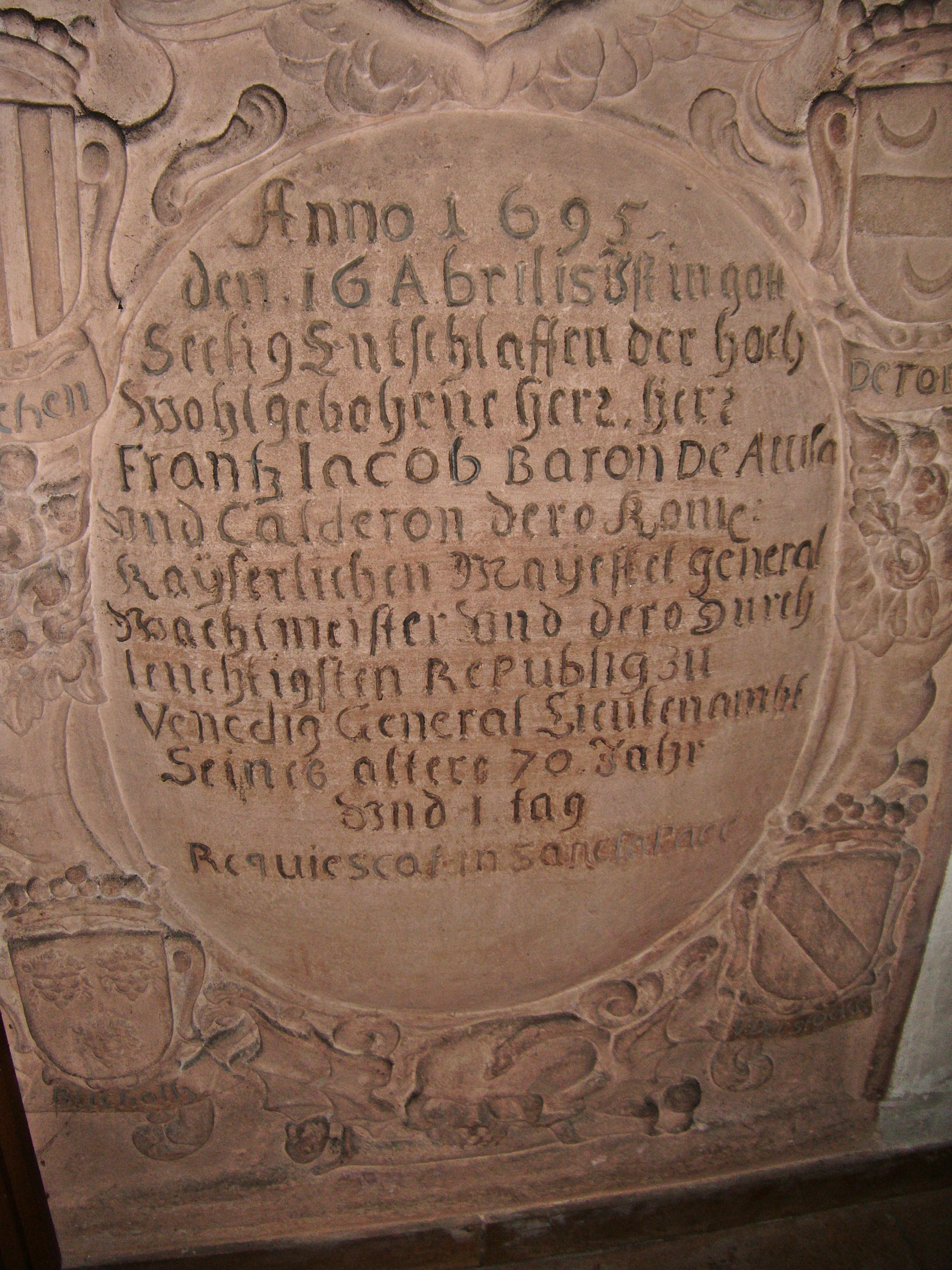 General Jakob Alfons Franz Calderon d’Avila (1625-1695), Grabinschrift, Kloster Engelberg, Großheubach